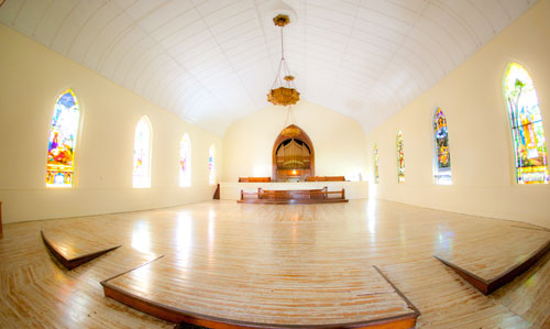 Celebration Chapel in Kingston New York is a wedding chapel in the Rondout historic district on the Hudson and Rondout creek where all couples are celebrated. Celebration Chapel opened on the day that the Marriage Equality act was made into law.